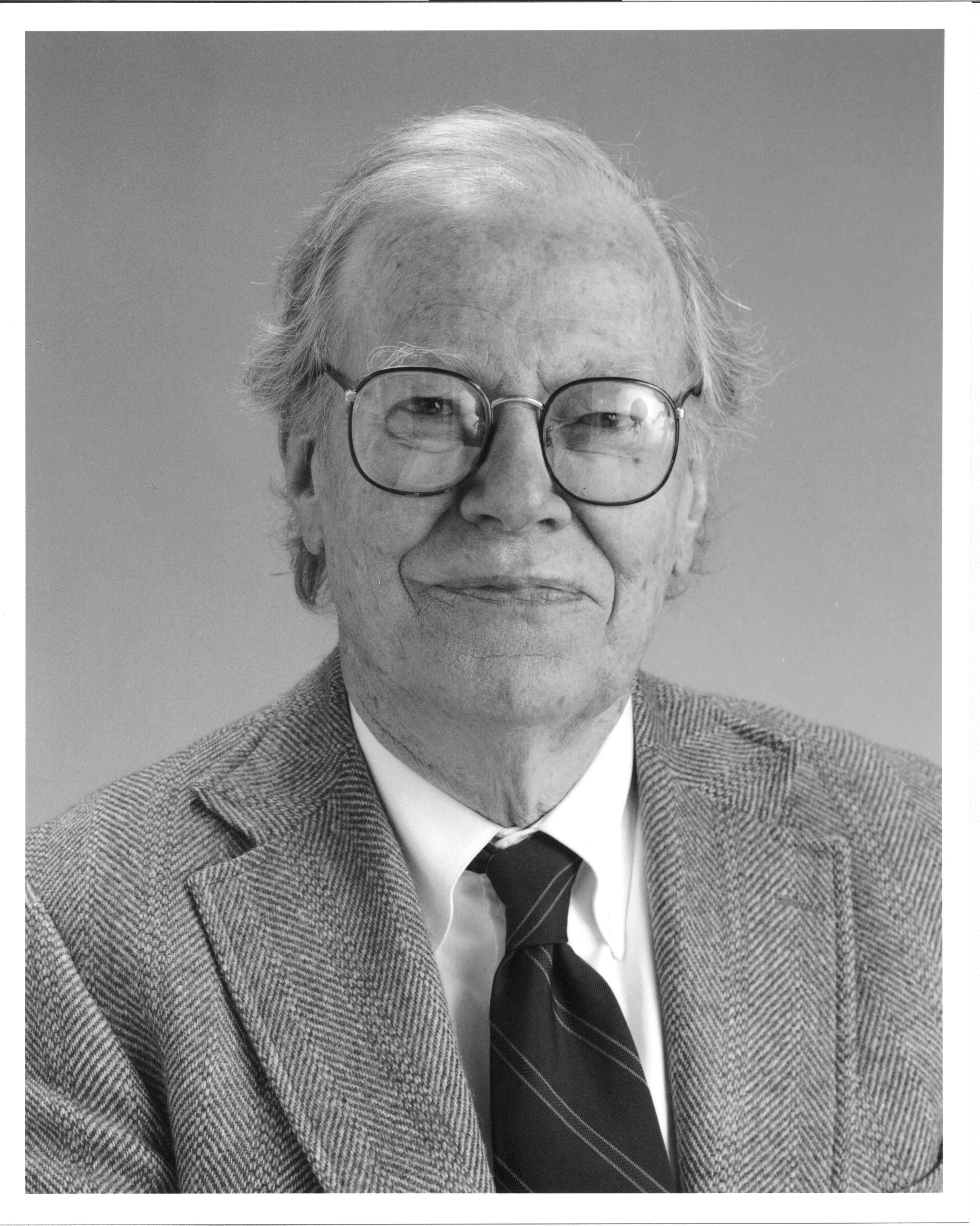 Portrait of William Clyde Martin, American physicist